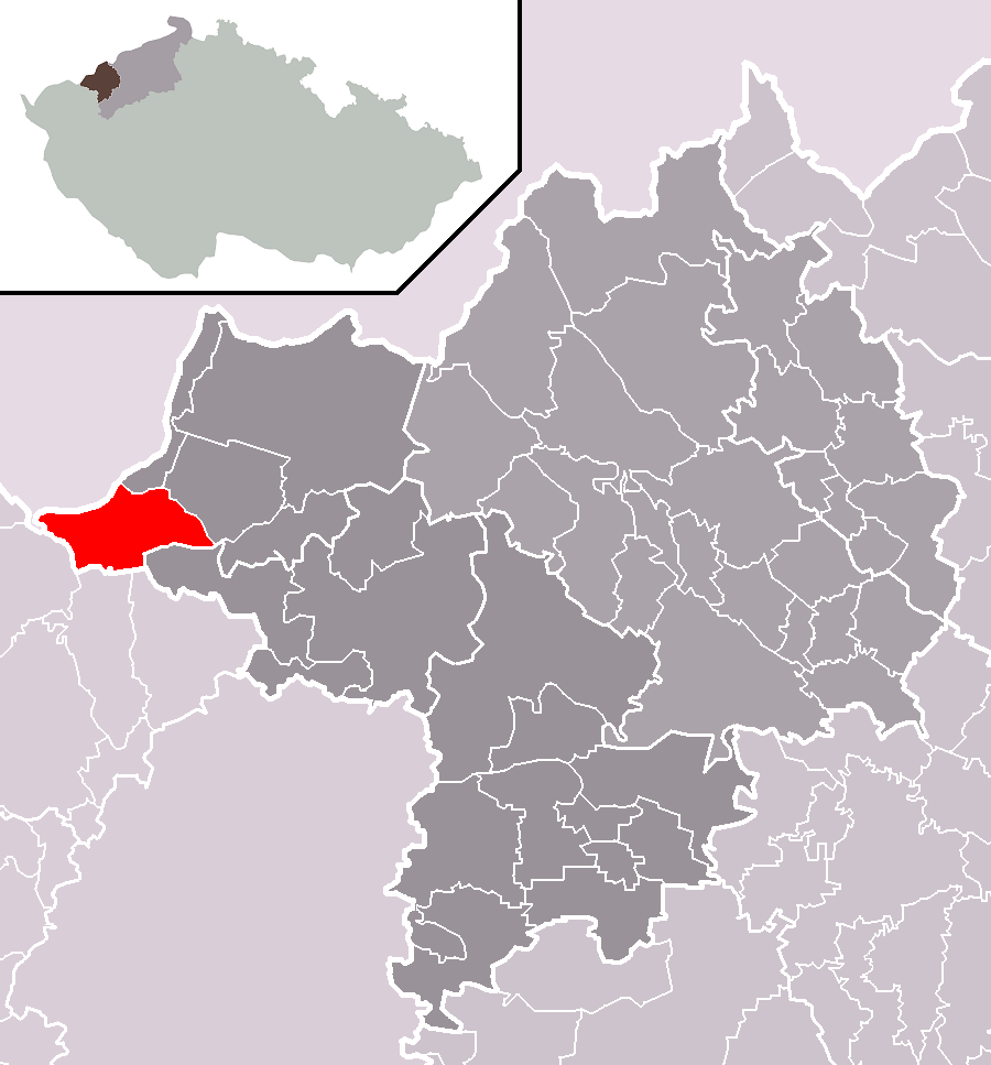 Location of Loučná pod Klínovcem town within Chomutov District and administrative area of Kadaň as a Municipality with Extended Competence.